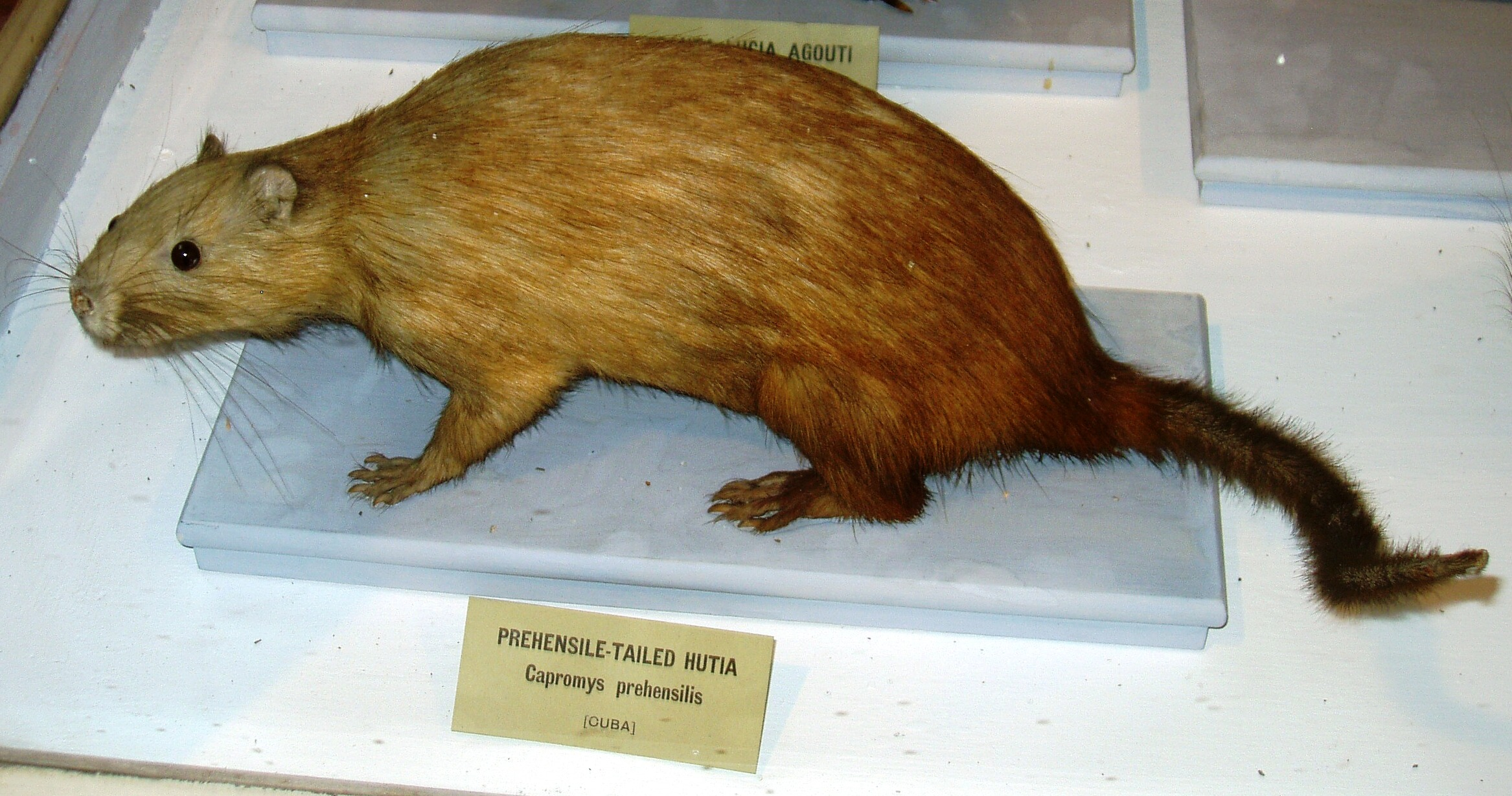 This is a photograph of a Prehensile-tailed Hutia (Capromys prehensilis). This photograph is from the Harvard Museum of Natural History / Peabody Museum. Although no copyright has been asserted for the subject matter or this image, the museum's photography rule is as follows: "No commercial photography or video cameras permitted in the museum without written permission." [Museum pamphlet, May 2007.]